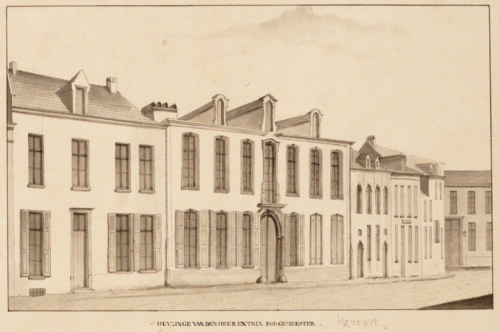 Huis van burgemeester Estrix, Hazestraat 10